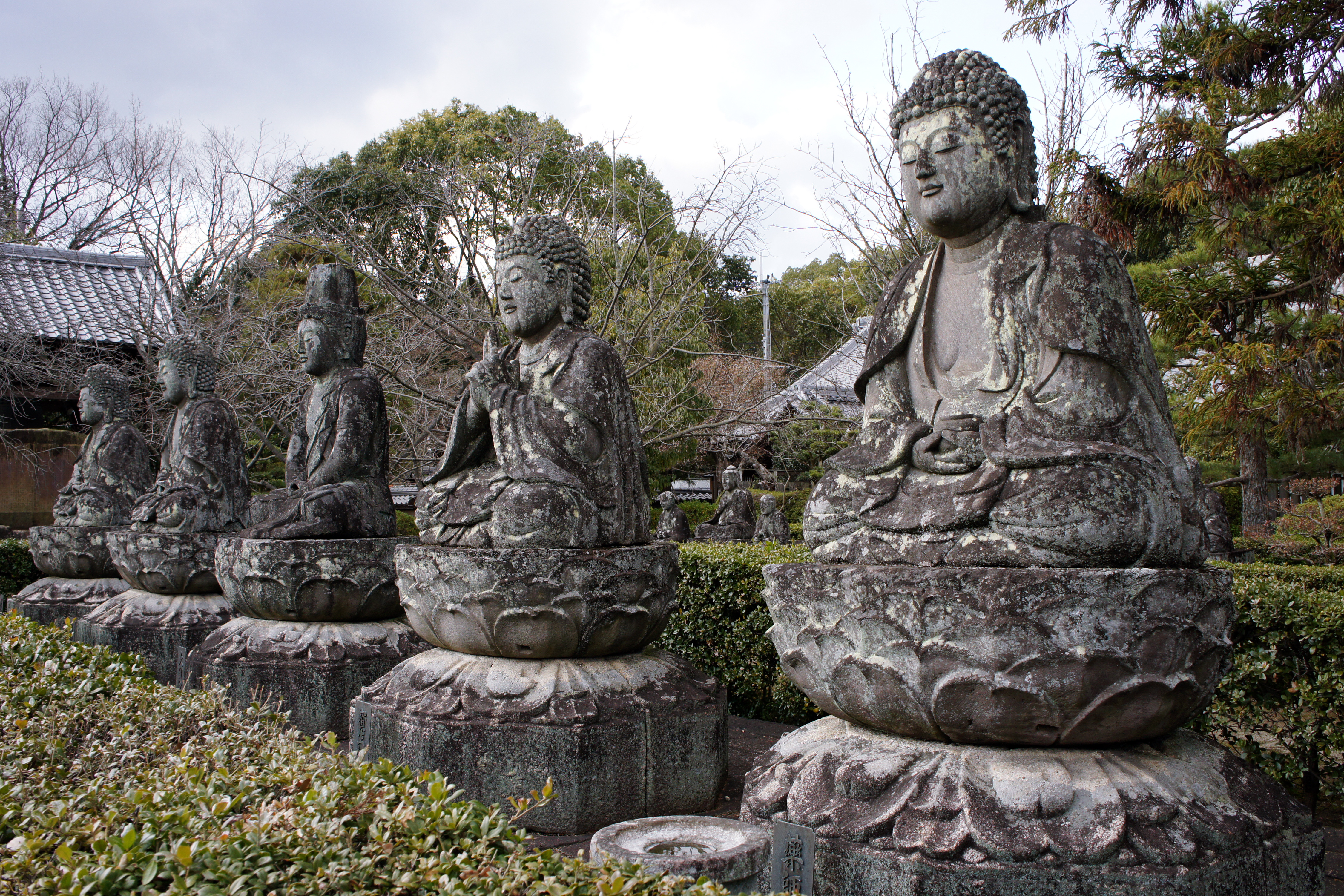 Renge-ji (North Garden) in Ukyō-ku, Kyoto, Kyoto Prefecture, Japan.